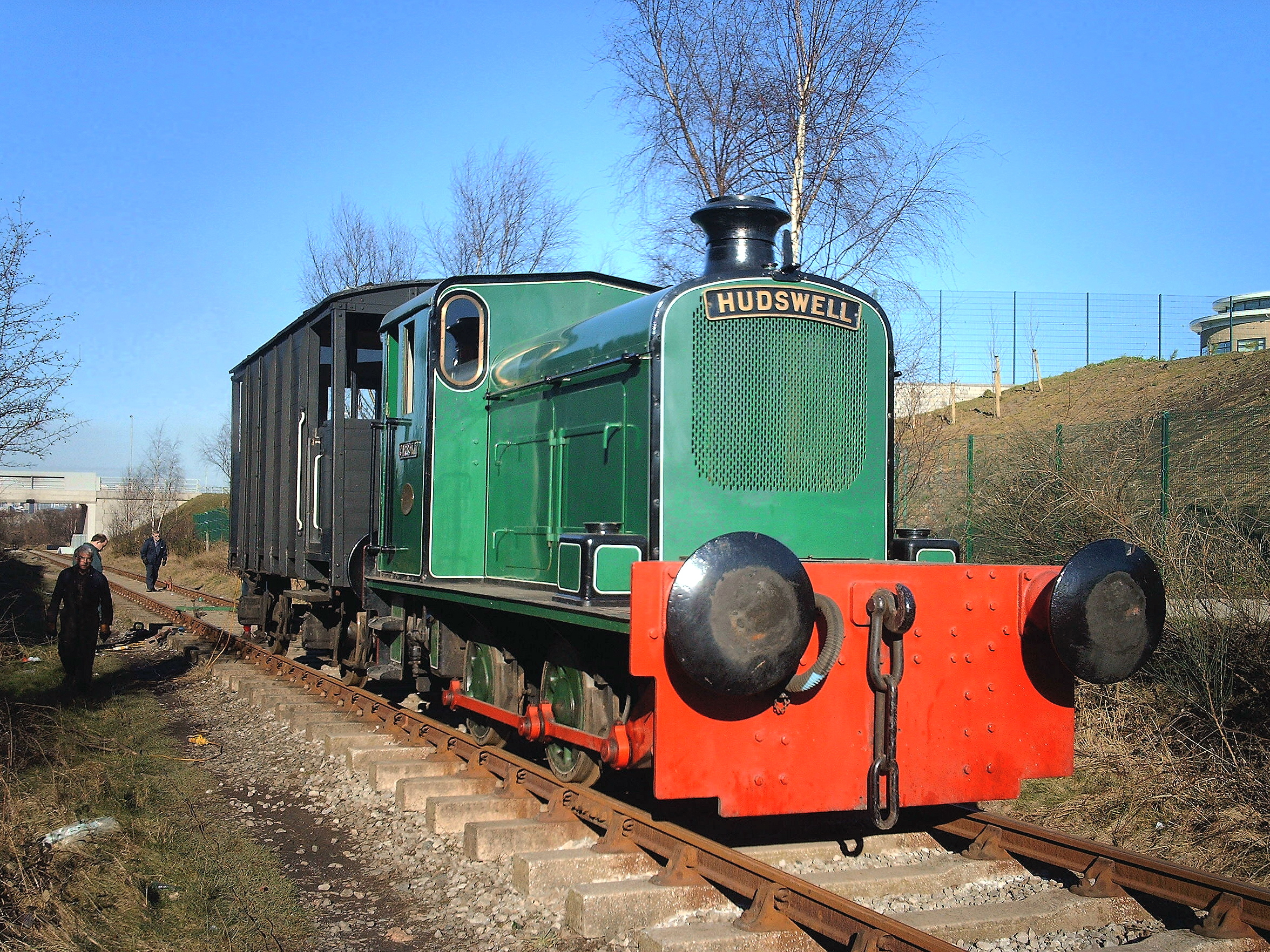 Hudswell Clarke of Leeds, locomotive "Carroll" built 1946